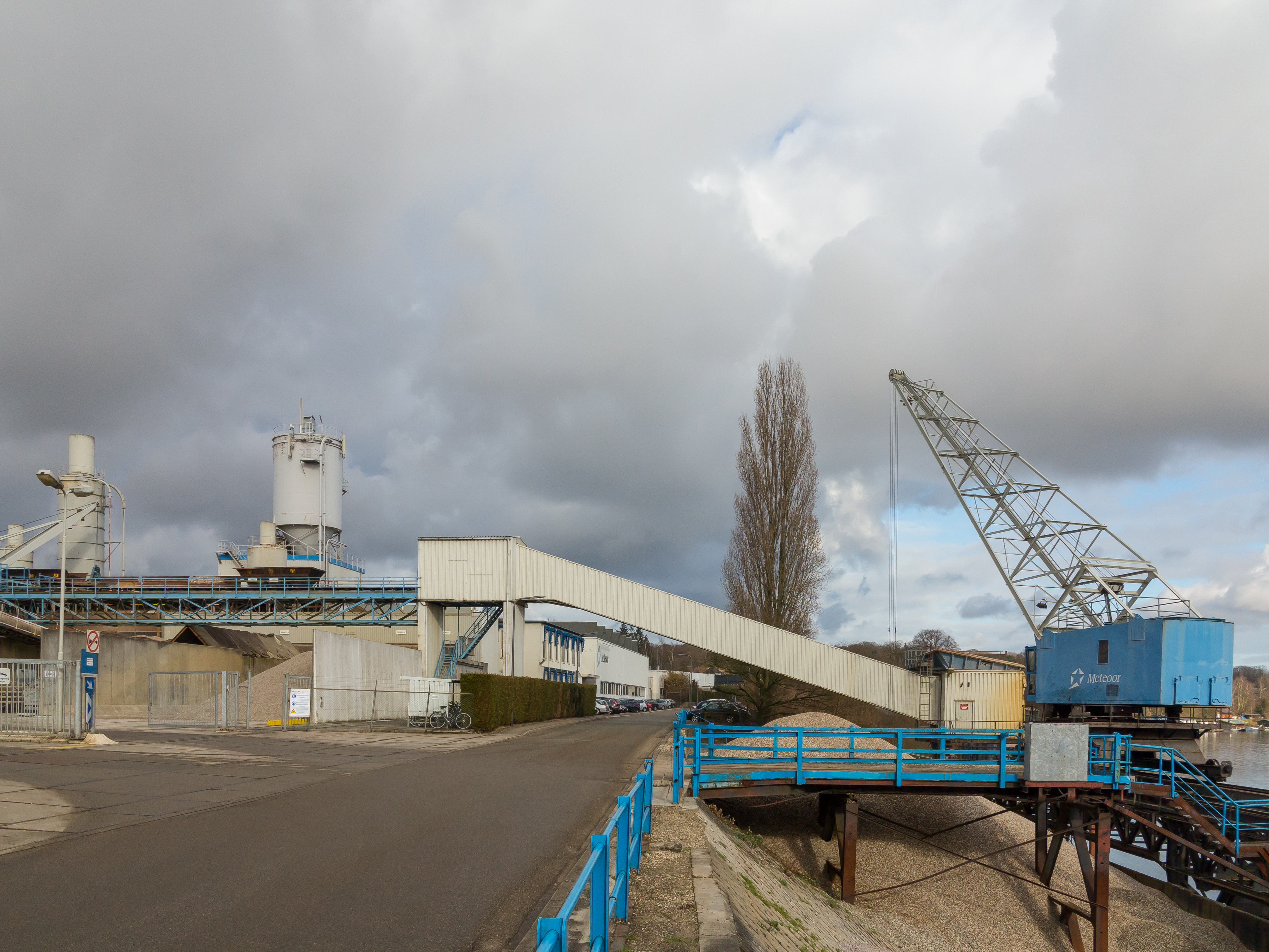 Rheden, concrete production plant de Meteoor